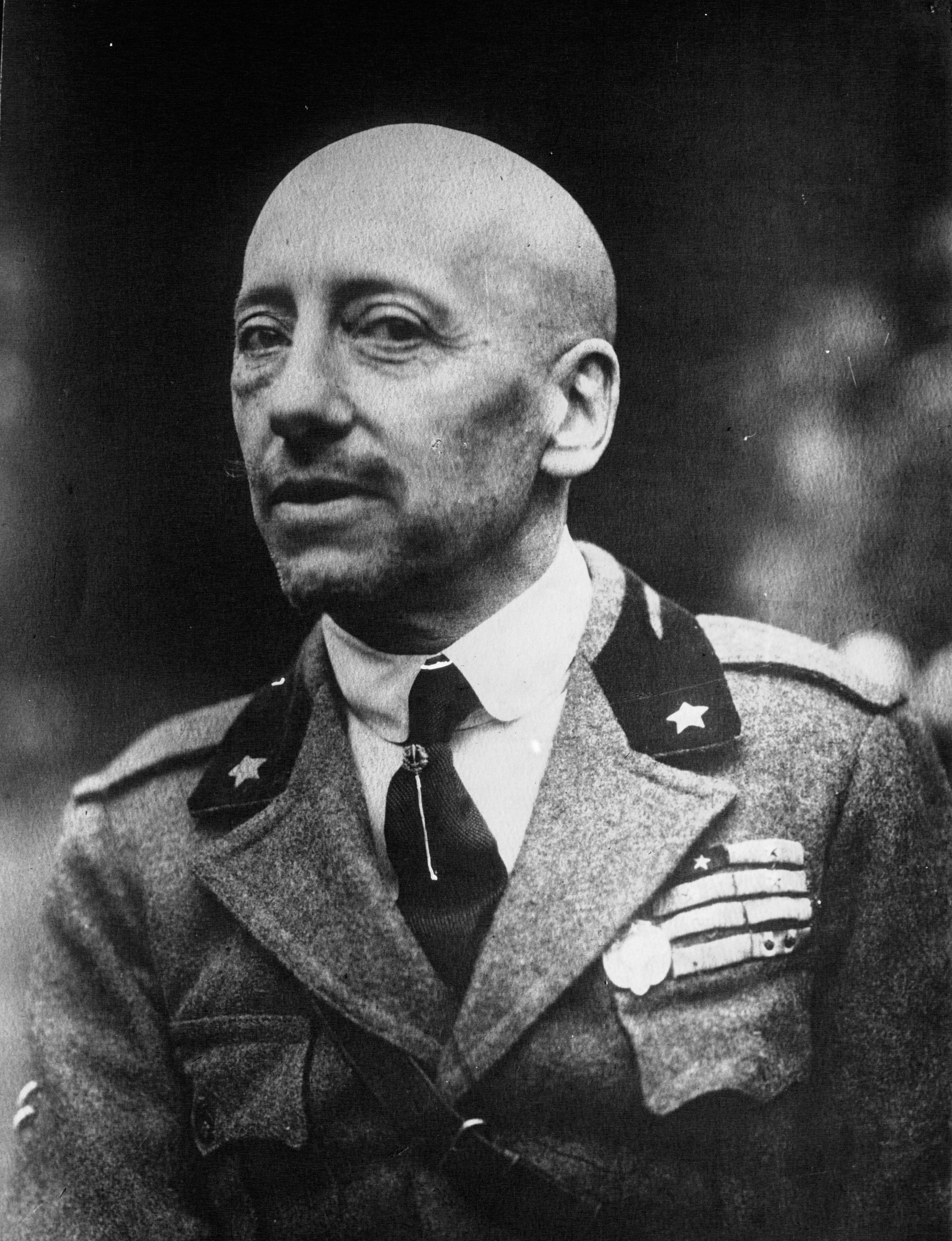 Italian writer Gabriele D'Annunzio (1863-1938).